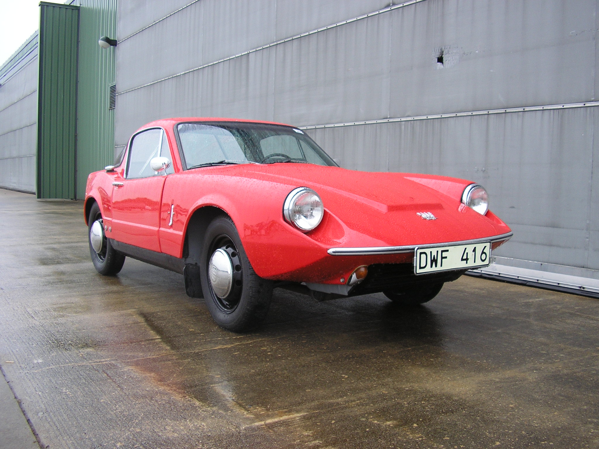 A 1966 SAAB Sonett II. Photographed at the International SAAB Club Meeting 2006.